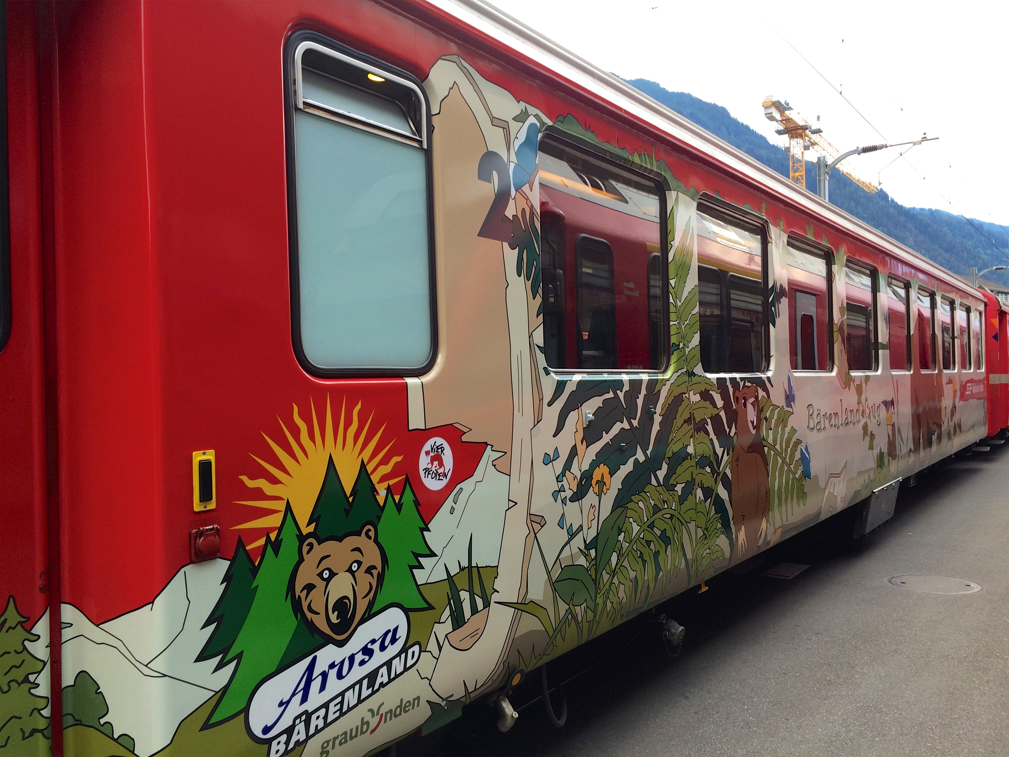 Specially designed coach "Arosa Bärenland" of Chur-Arosa railway